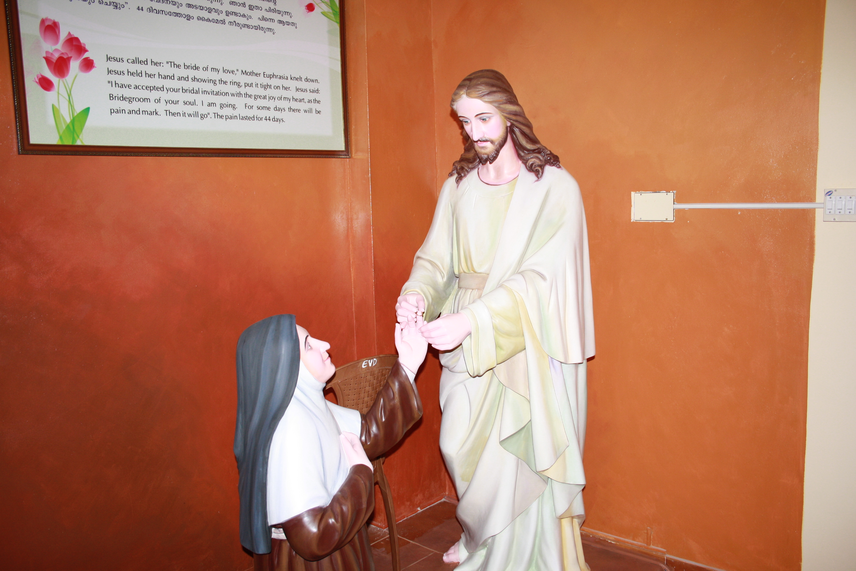 Inside view of Saint Euphrasia Museum in Ollur